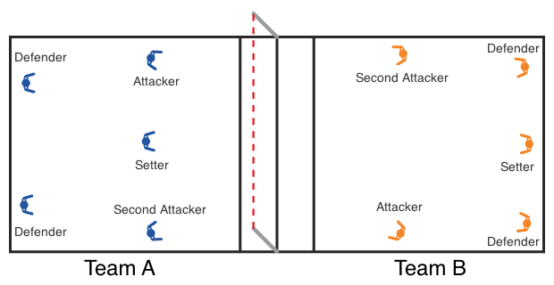 Image displays the two common formations utilised by teams playing fistball